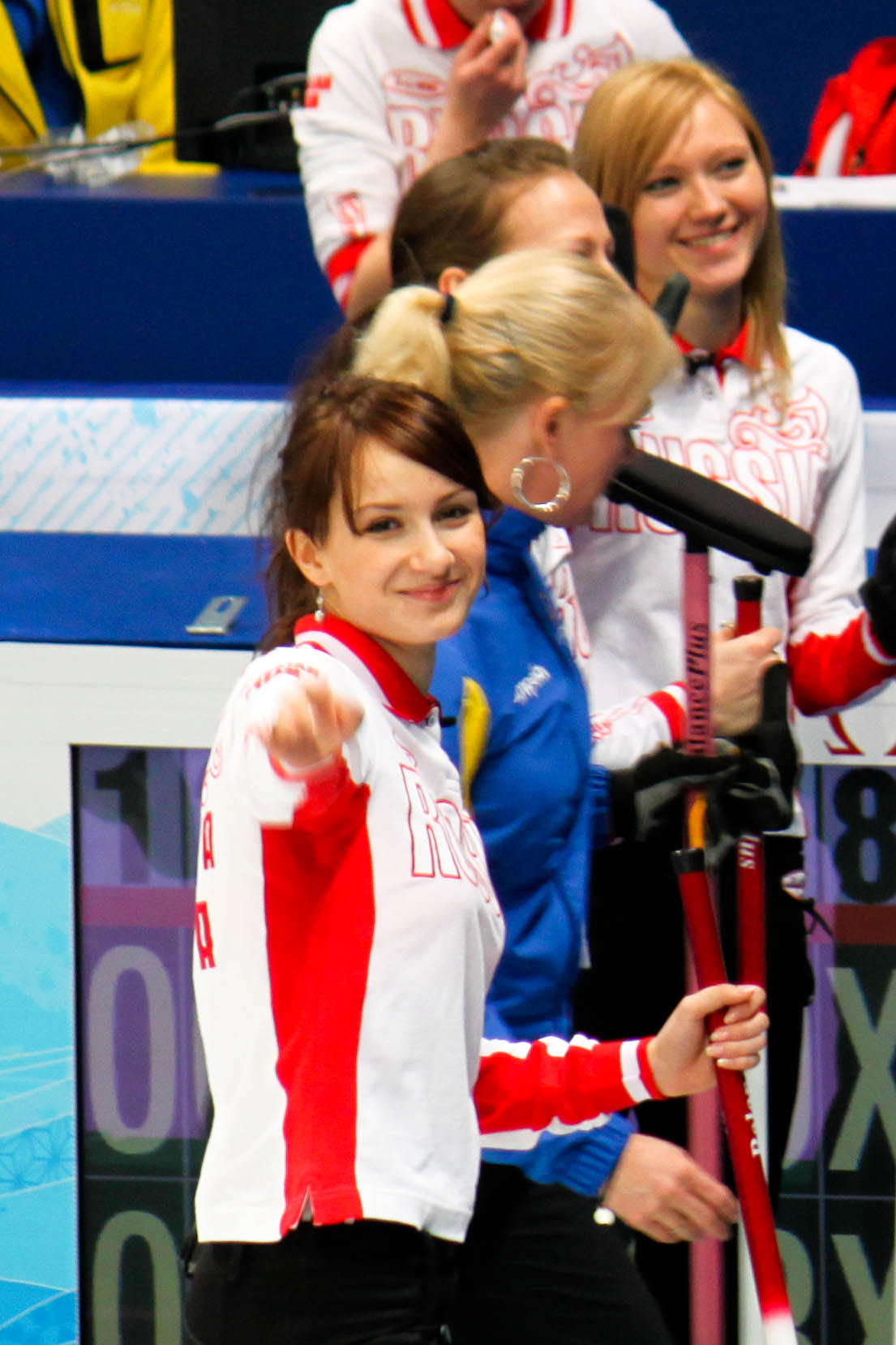 Anna Sidorova (RUS) after match against Sweden